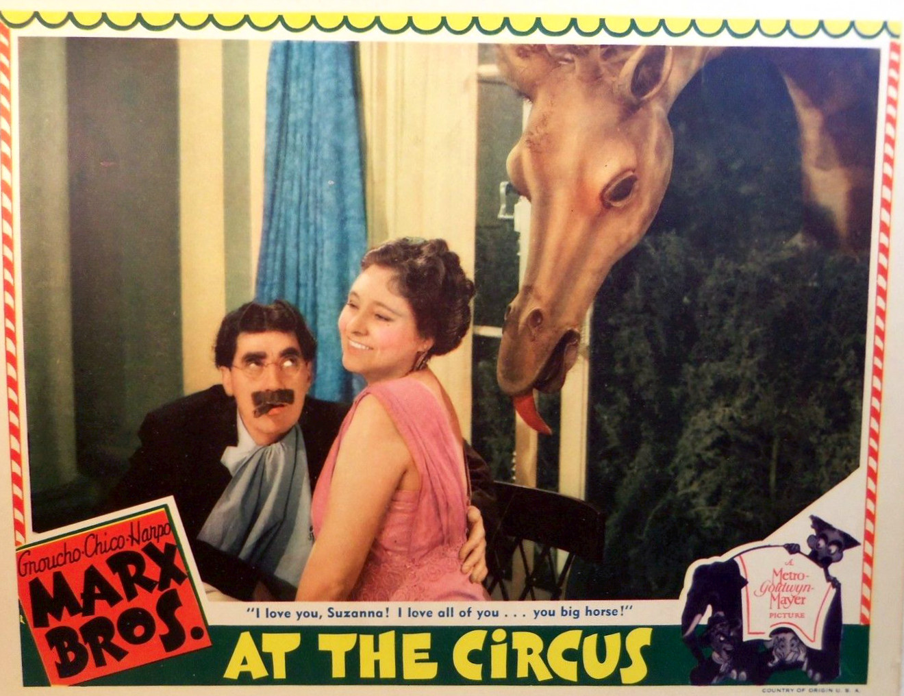 Lobby card for the American comedy film At the Circus (1939). Pictured are Groucho Marx and Margaret Dumont.